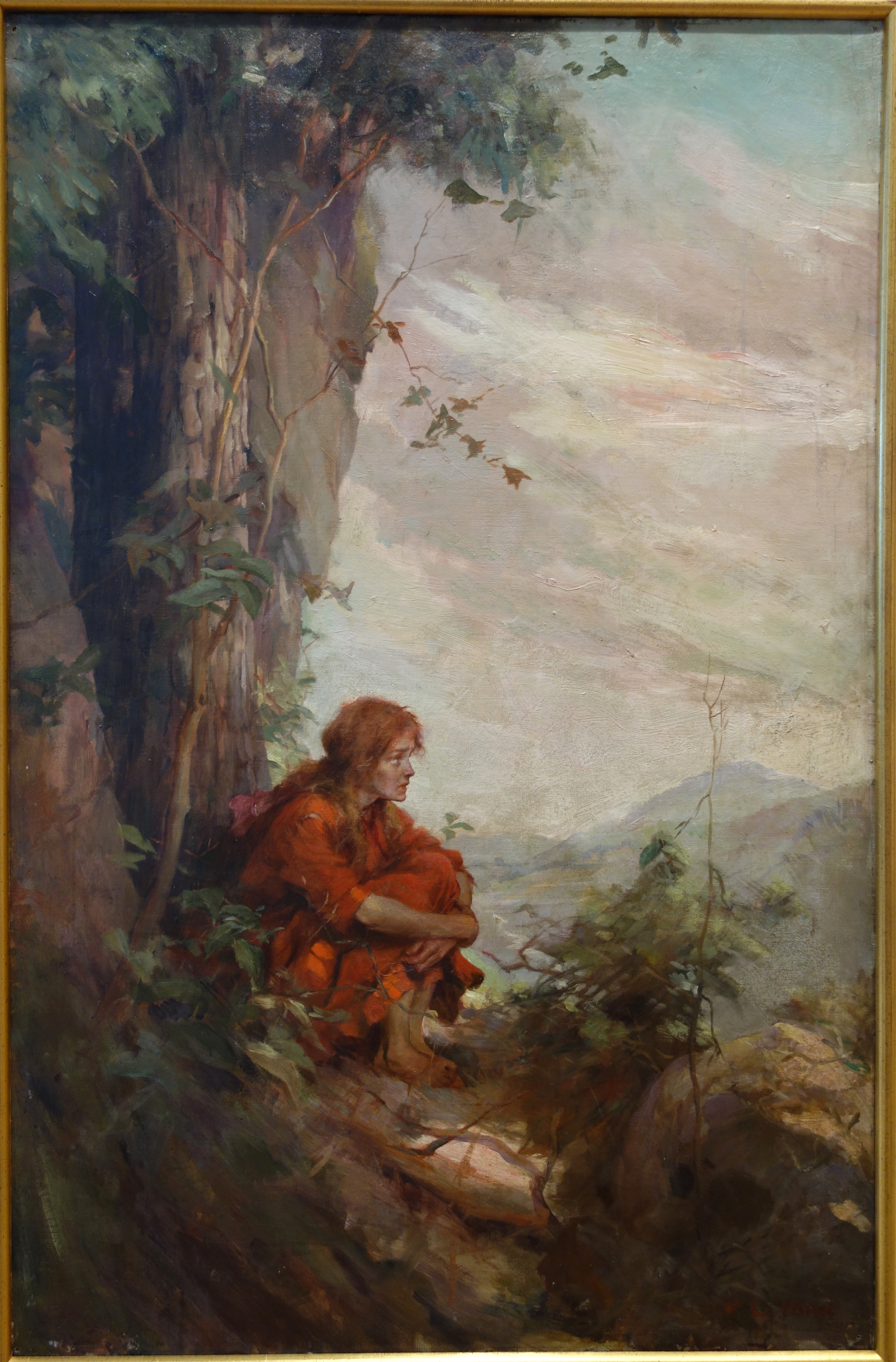 Exhibit in the New Britain Museum of American Art, New Britain, Connecticut, USA. This artwork is in the public domain because it was first published in the United States before 1923. The museum permitted photographs of this exhibit without restriction.